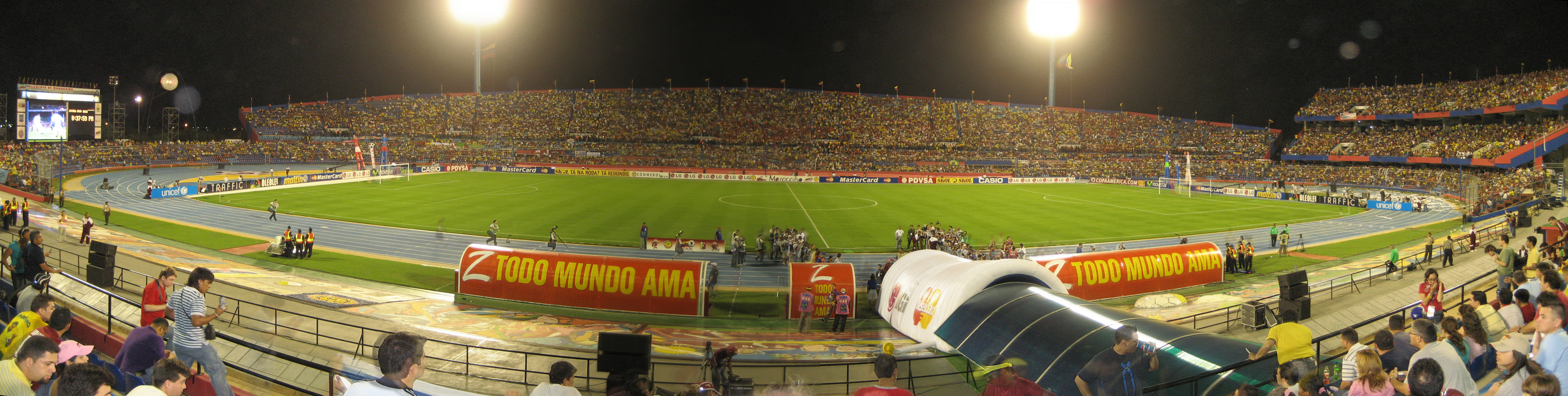 Same as the last but this one done with Autostich instead of Photostich.